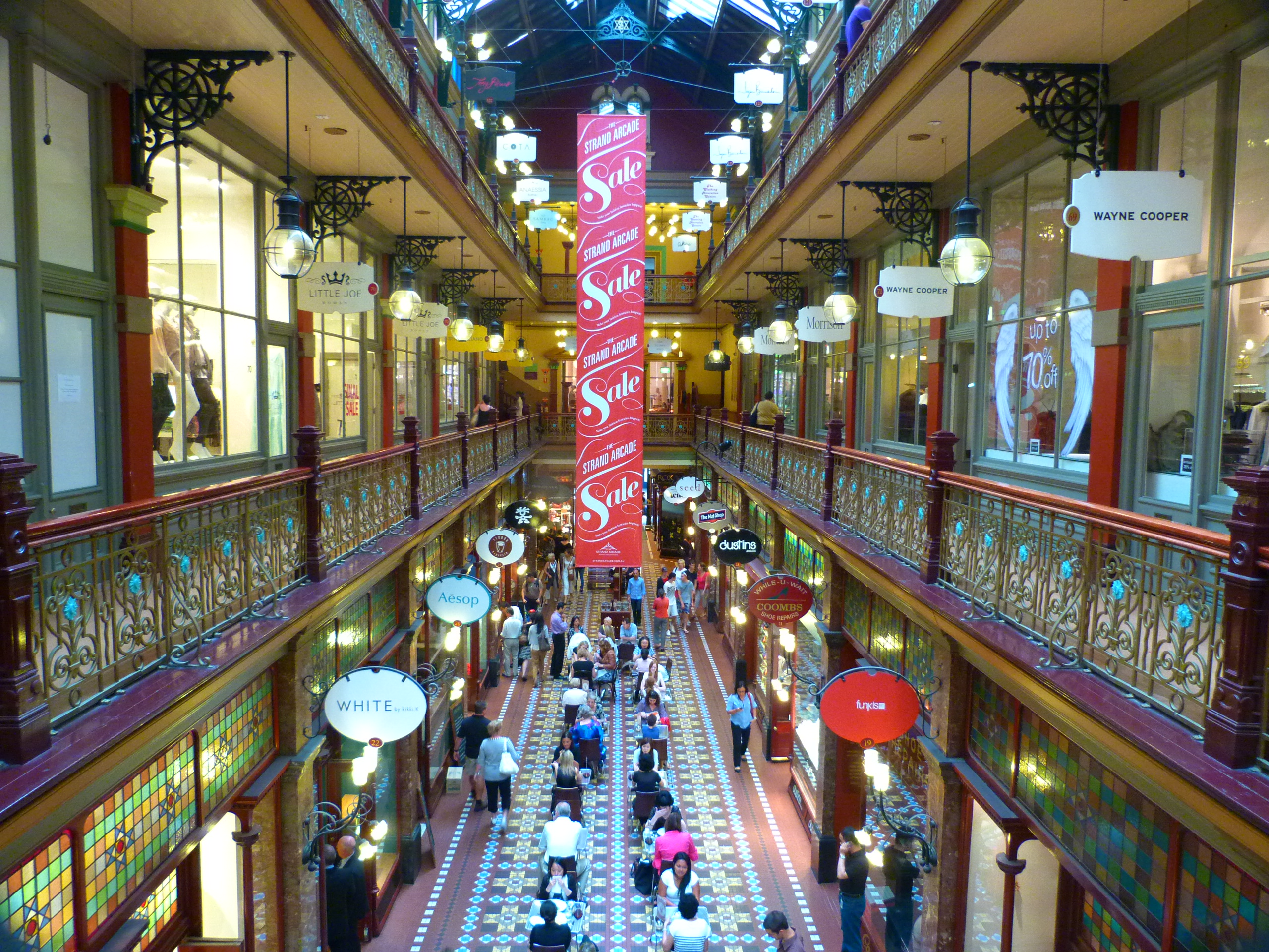 strand arcade, sydney